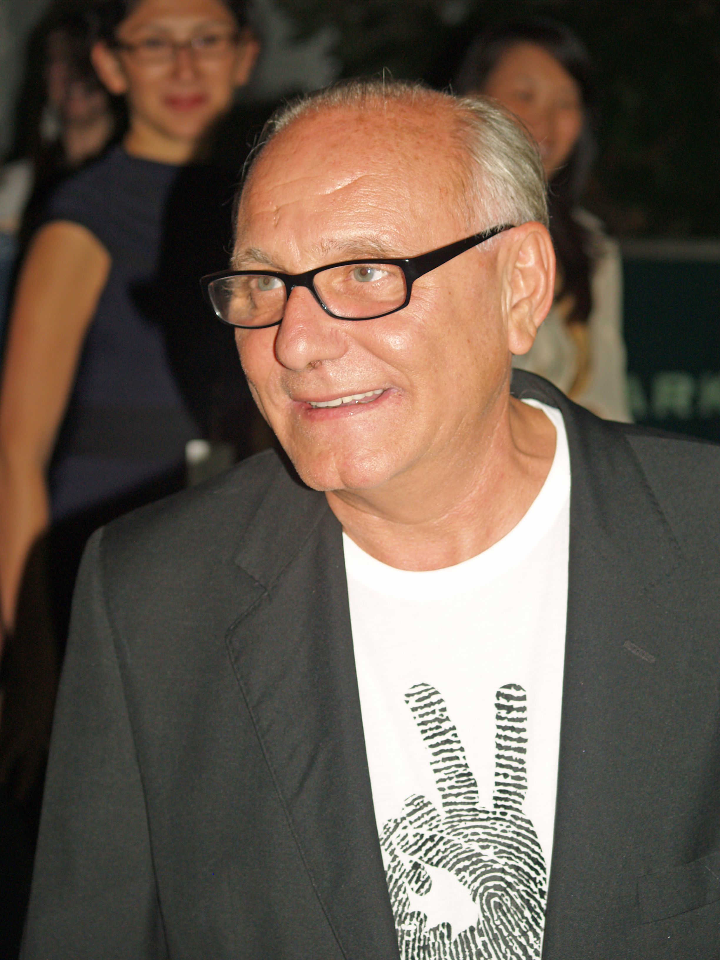 Max Azria outside the Vivenne Tam show at the Spring 2009 collection Mercedes-Benz Fashion Week (aka New York Fashion Week